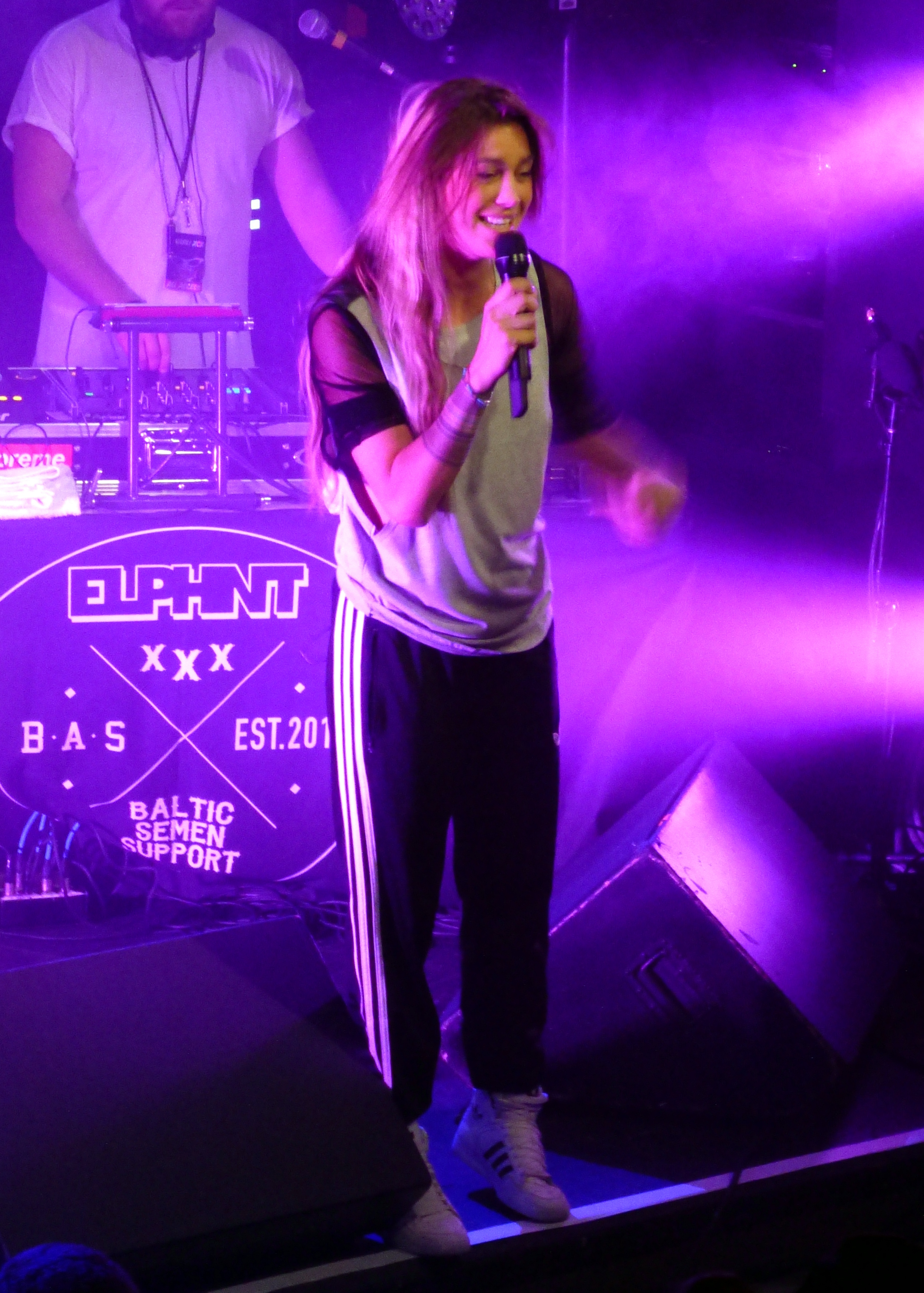 Elliphant (Ellinor Olovsdotter) performing at St Andrews in Detroit, 10/11/14